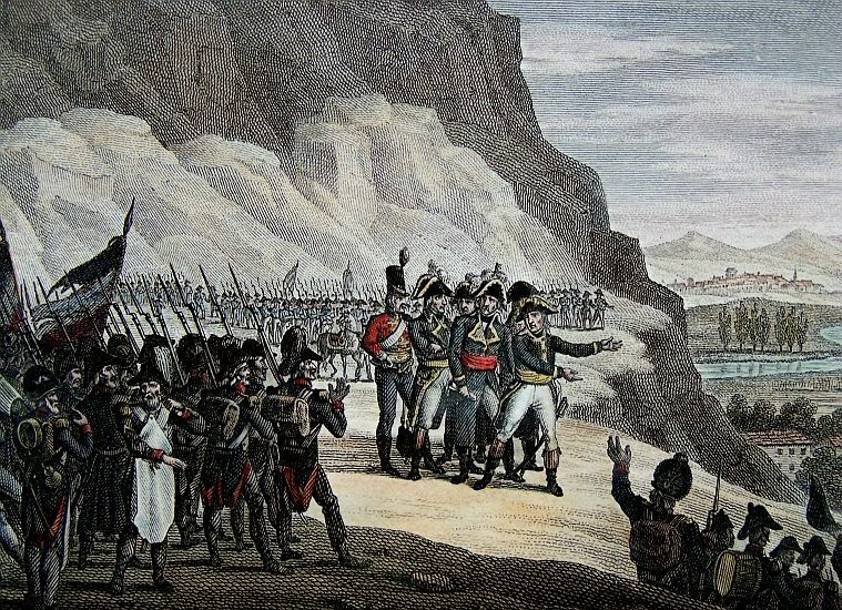 Bonaparte arrives in Italy (1796)